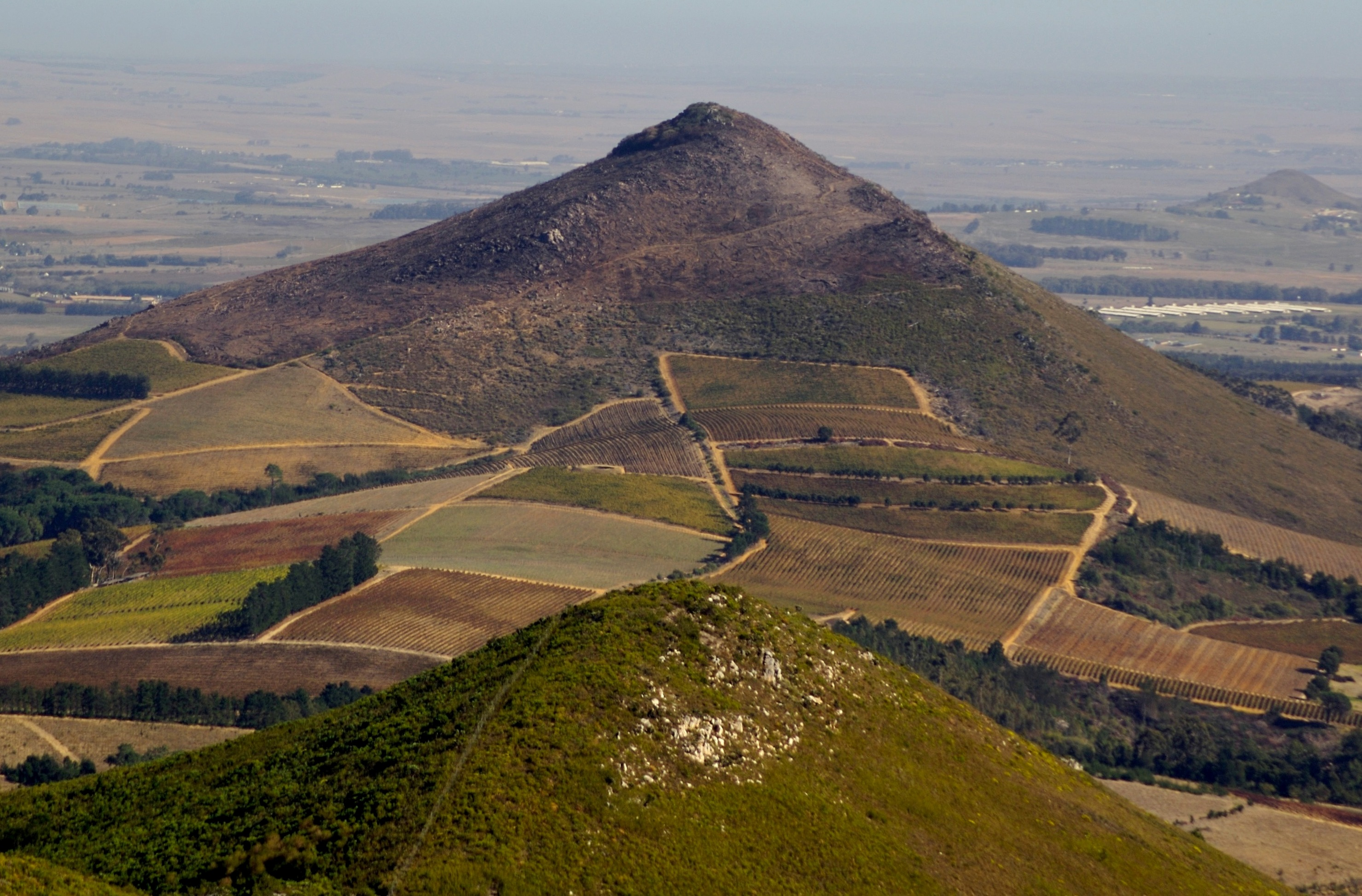 Shale Renosterveld habitat, above cultivated fields, after a veld fire. Photo taken of Klapmuts Hill near Stellenbosch in the Western Cape, South Africa.